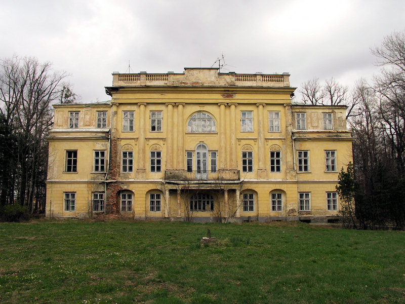 Palace in Hnojník (polish: Gnojnik) in the Czech Republic